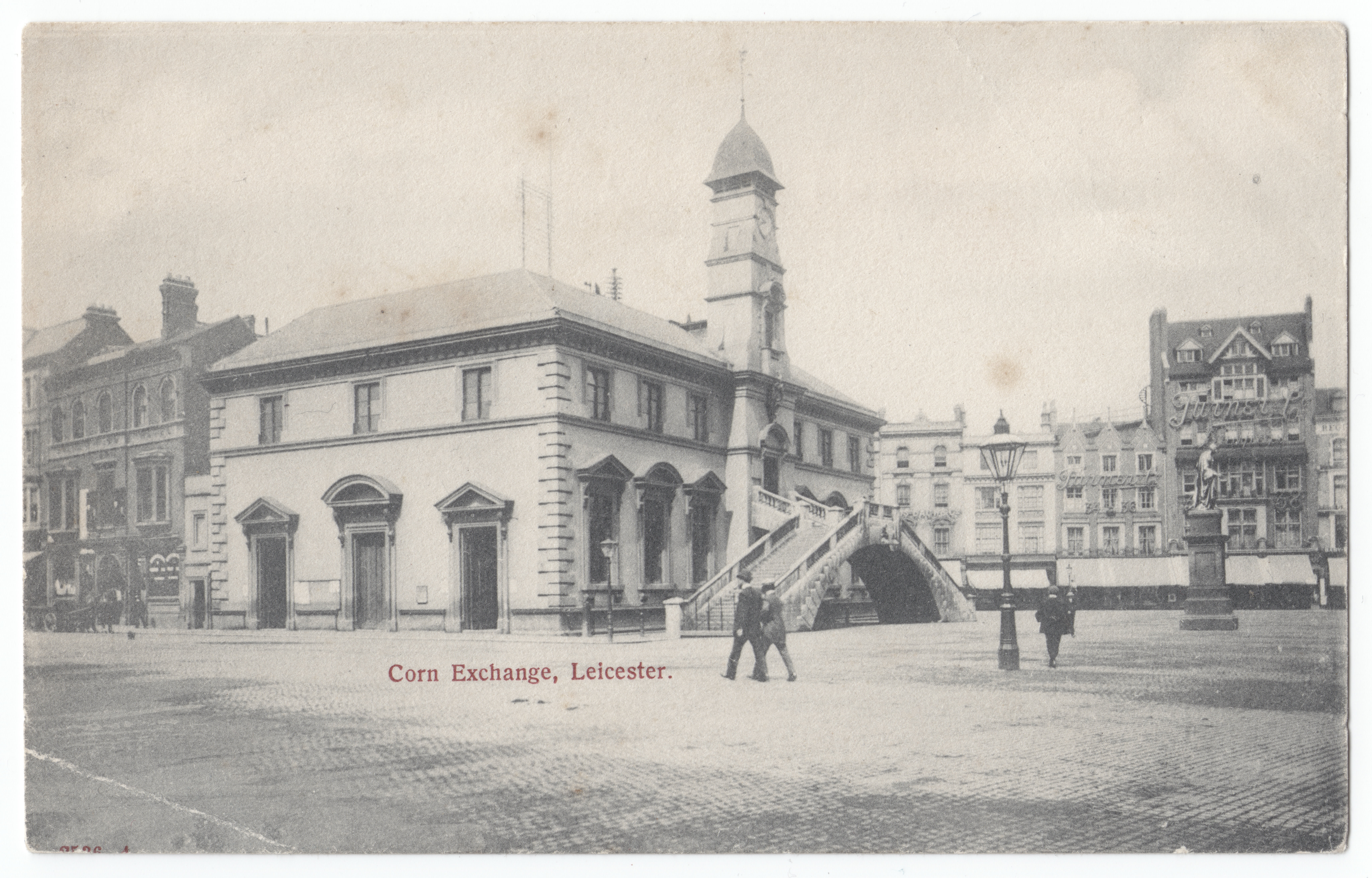 A postcard of the Corn Exchange and market place| in Leicester. Postcard is postally unused, but (judging by dress and building advertising) image is clearly from around 1900. From the Boots Pelham series, which -- according to Collecting picture postcards by Geoffrey A. Godden (p. 89) -- was published in the period 1904-14.